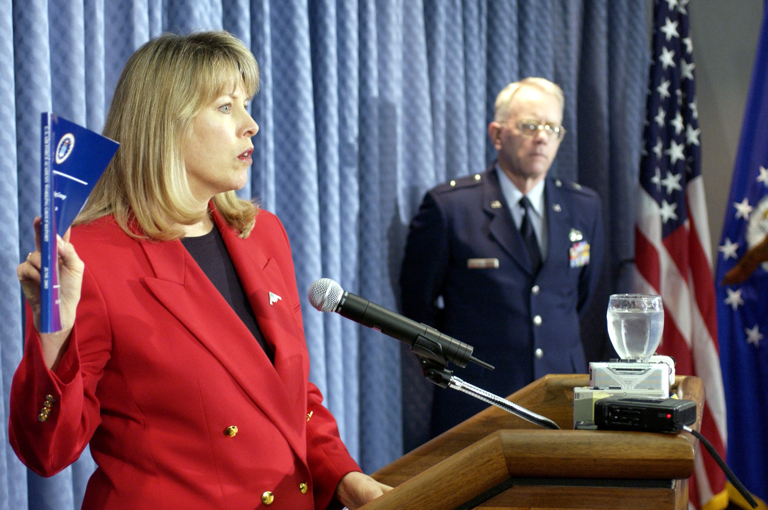 US Air Force (USAF) General Counsel Mary L. Walker, holds a copy of the report on the US Air Force Academy (USAFA) sexual misconduct study released June 19th during a Pentagon press briefing. USAF Brigadier General (BGEN) Ron Rand, director of Air Force public affairs, listens.